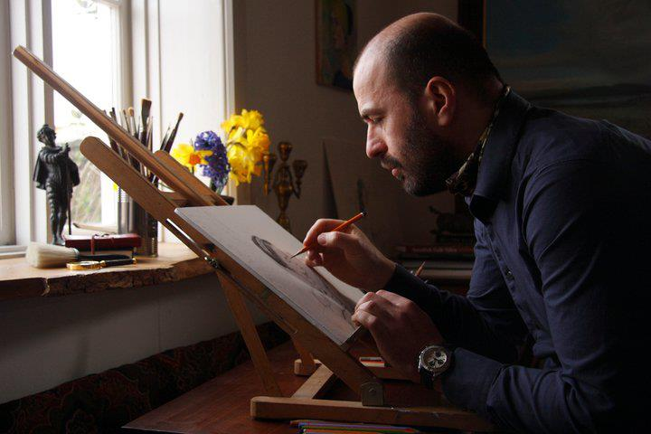 A picture of the artist working on his studio in the grounds of the Ballymaloe House, Cork, Ireland